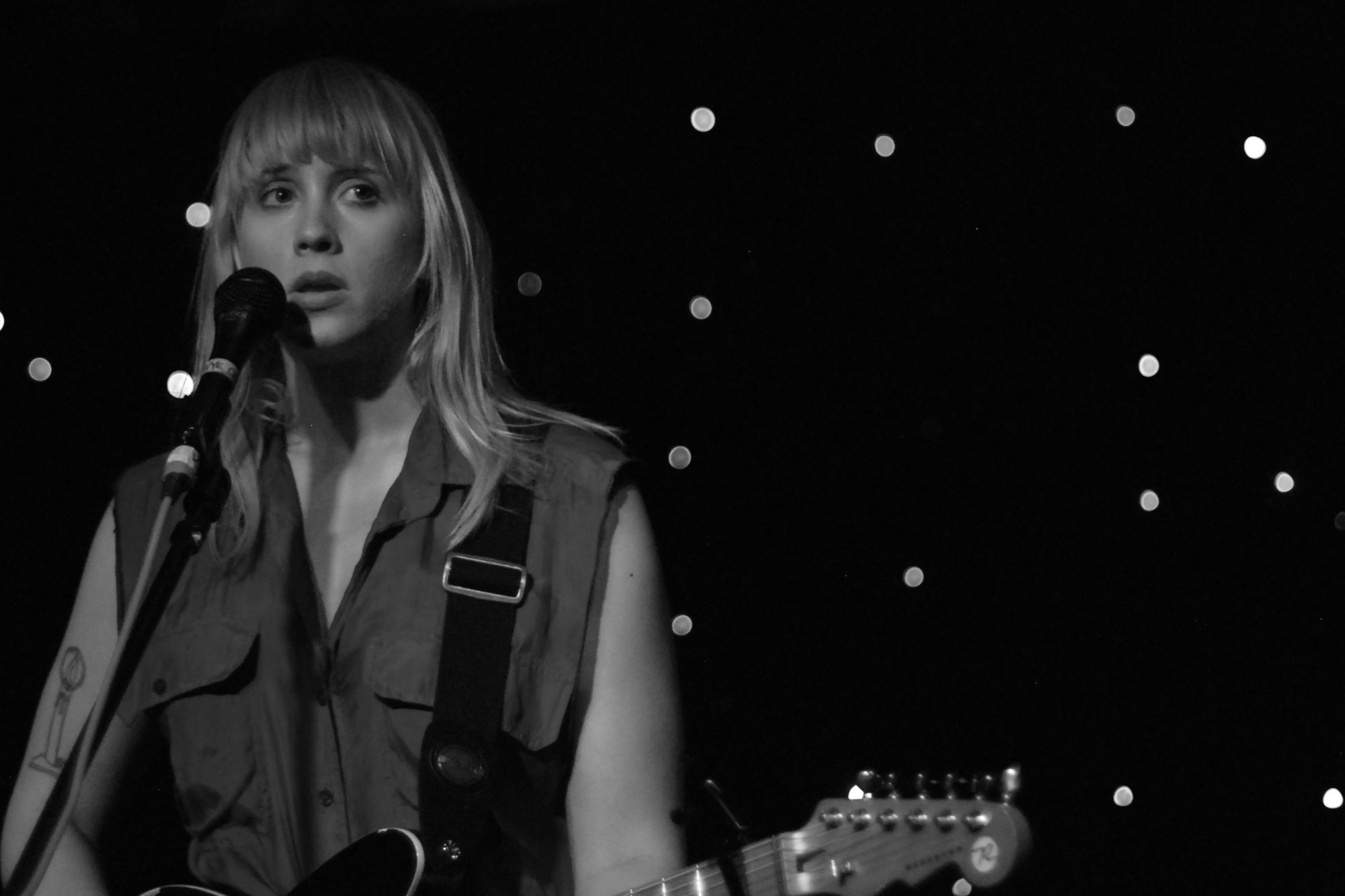 Lead singer of the band Wye Oak Bottletree Cafe August 5, 2012